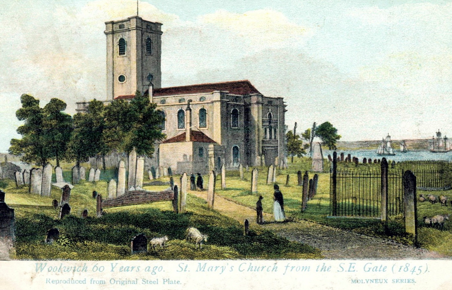 View of the parish church of St Mary Magdalene in Woolwich, South East London (then in Kent). The churchyard was turned into a public park around 1905.